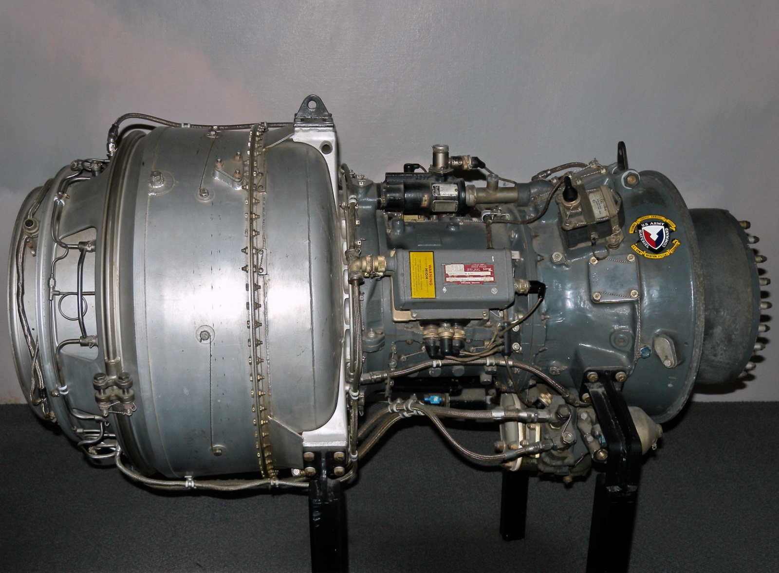 In July 1952, Lycoming was awarded a contract by the Air Force Air Materiel Command to develop a free-turbine turboshaft engine designated LTC1 (military designation T53-L-1). The first production engine was delivered in 1959. The T53's front-drive, concentric-shaft arrangement set a widely accepted U.S. design standard for turboshaft engines, and gave Lycoming its start in the aircraft gas turbine business. It was a key technology contributing to expansion of Army aviation's air-mobility during the Viet Nam War. Airframe applications were the Bell UH-1 Iroquois (Huey) and AH-1 HueyCobra helicopters and Grumman OV-1 Mohawk aircraft. Development of the T53-L-13 (LTC1K-4) series began in 1959, and the engine first ran in 1960. Qualified in June 1966, the first production engine was delivered in August 1966. The L-13 series powered the Bell HU-1C/D/H Iroquois and the Bell AH-1G HueyCobra. This Lycoming LTC1K-4 (Air Force Model No. T53L1B) turboshaft engine powered a U.S. Air Force Kaman HH-43B helicopter. T53-L-13 (LTC1K-4)